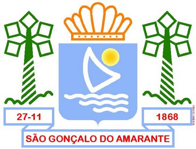 Brasão do Município de são Gonçalo do Amarante, estado do Ceará, Brasil.